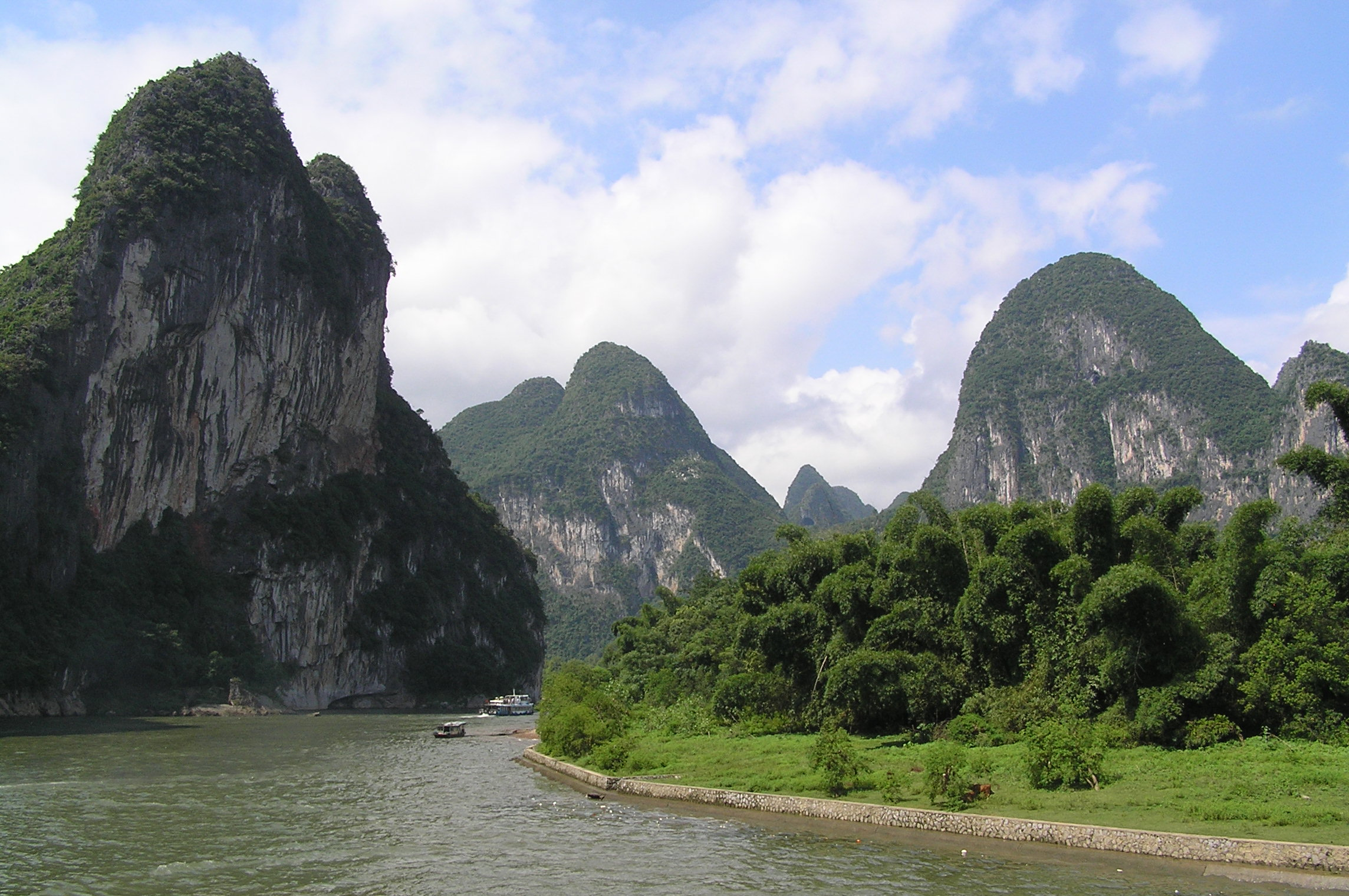 Image at the Lijiang River (Guanxi, China) Author: Mr. Tickle Date: 08/24, 2005